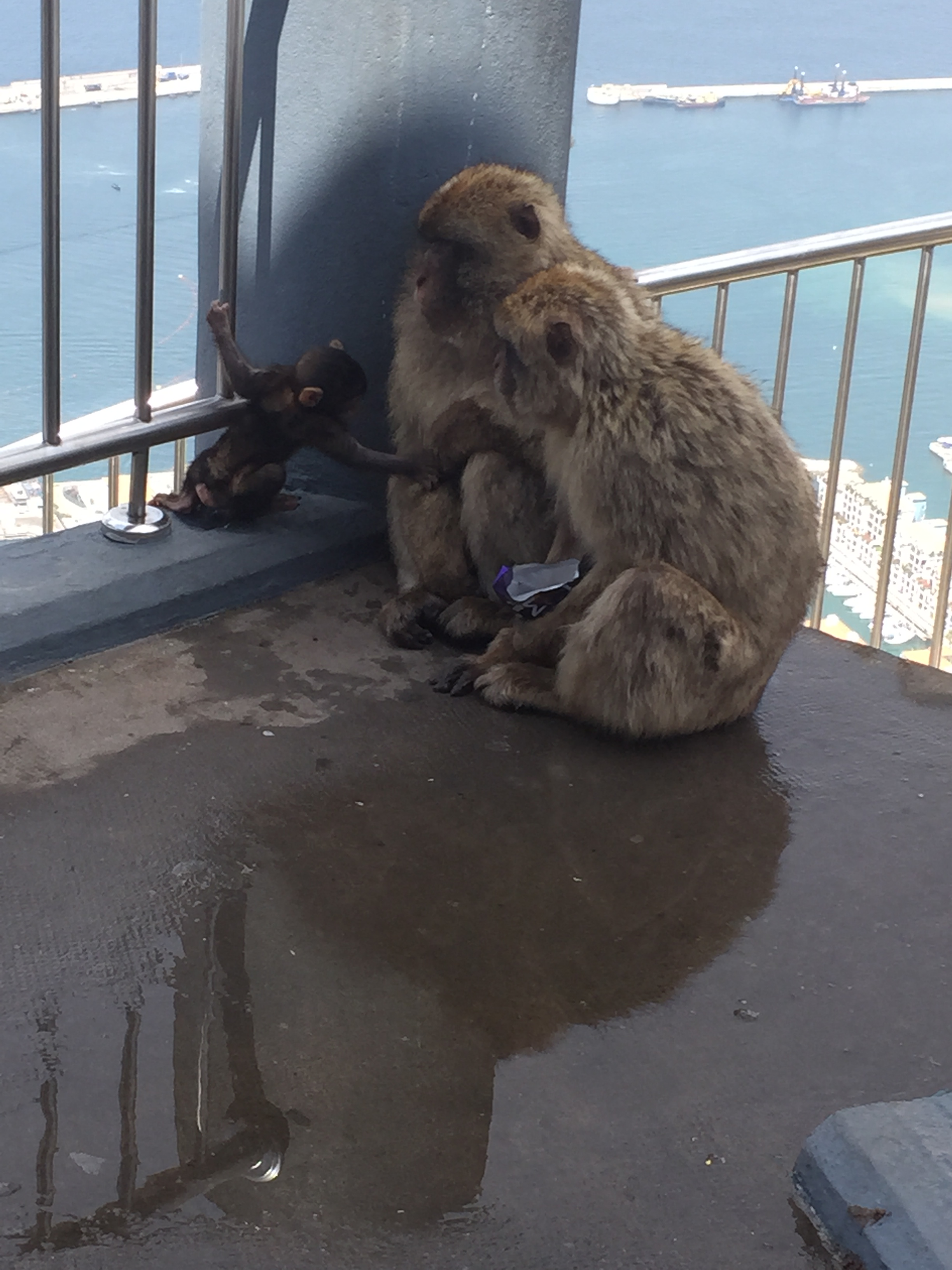 Two adults Barbary Macaques with a baby on top of the Rock of Gibraltar. One macaque has a Dairy Milk chocolate wrapper in its hand, which it had pick-pocketed from a tourist.